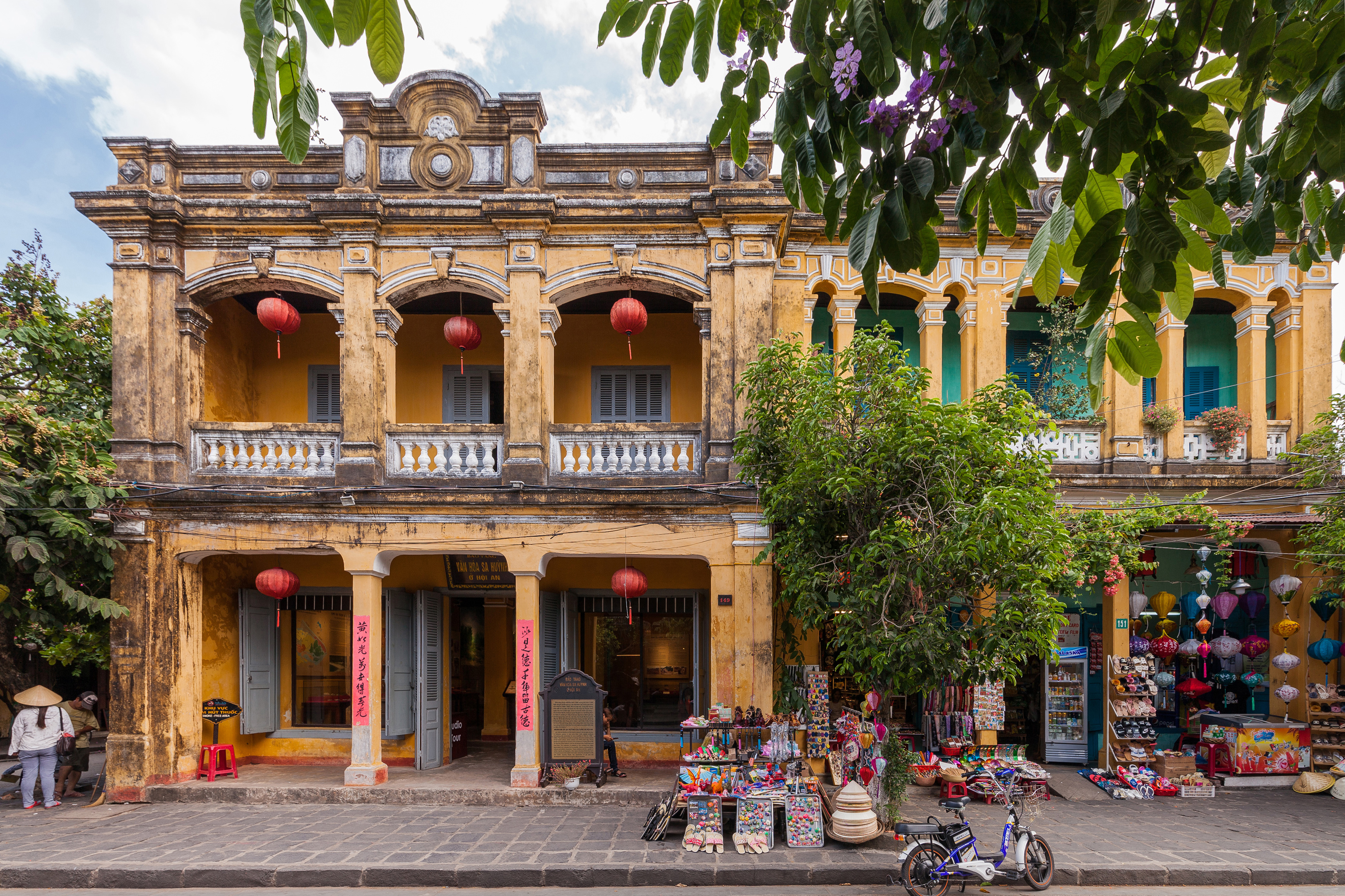 A shophouse in Hội An, Ancient Town, Vietnam.